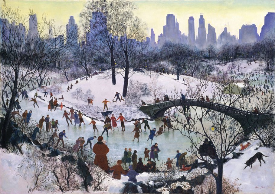 Agnes Tait, Skating in Central Park, 1934, oil on canvas. Smithsonian American Art Museum (transfered from the Department of Labor)